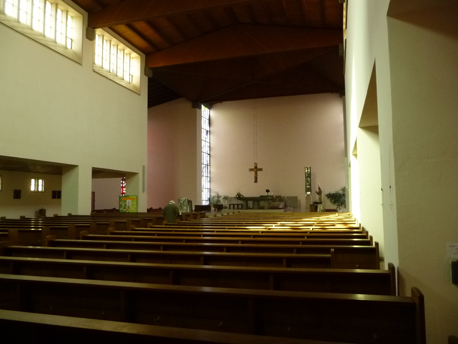 St. Josef (Ludwigshafen-Friesenheim)